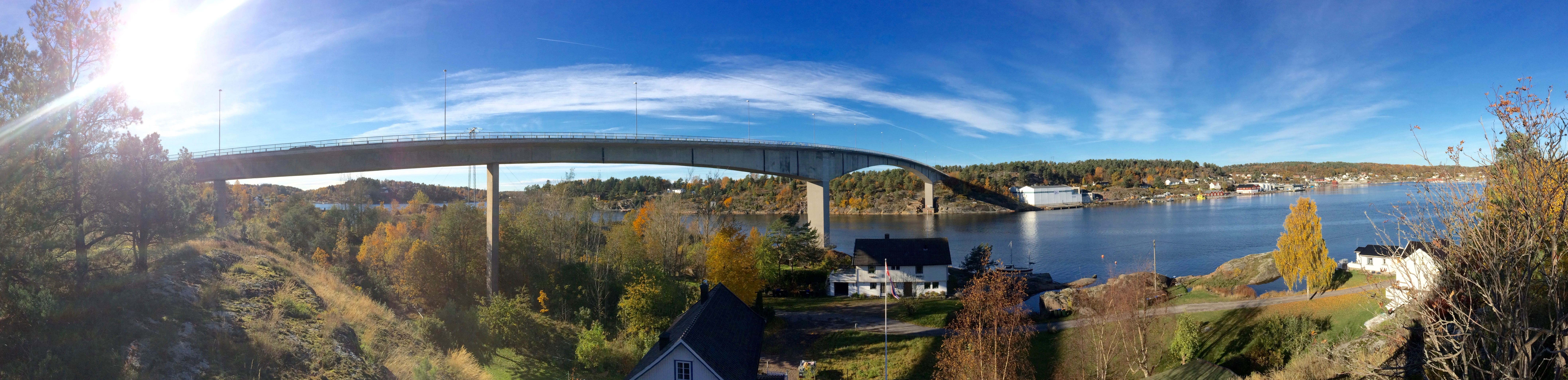 Vrengenbrua Tjøme Nøtterøy Vestfold Vrengen nordsida 2015-10-23 distorted panorama